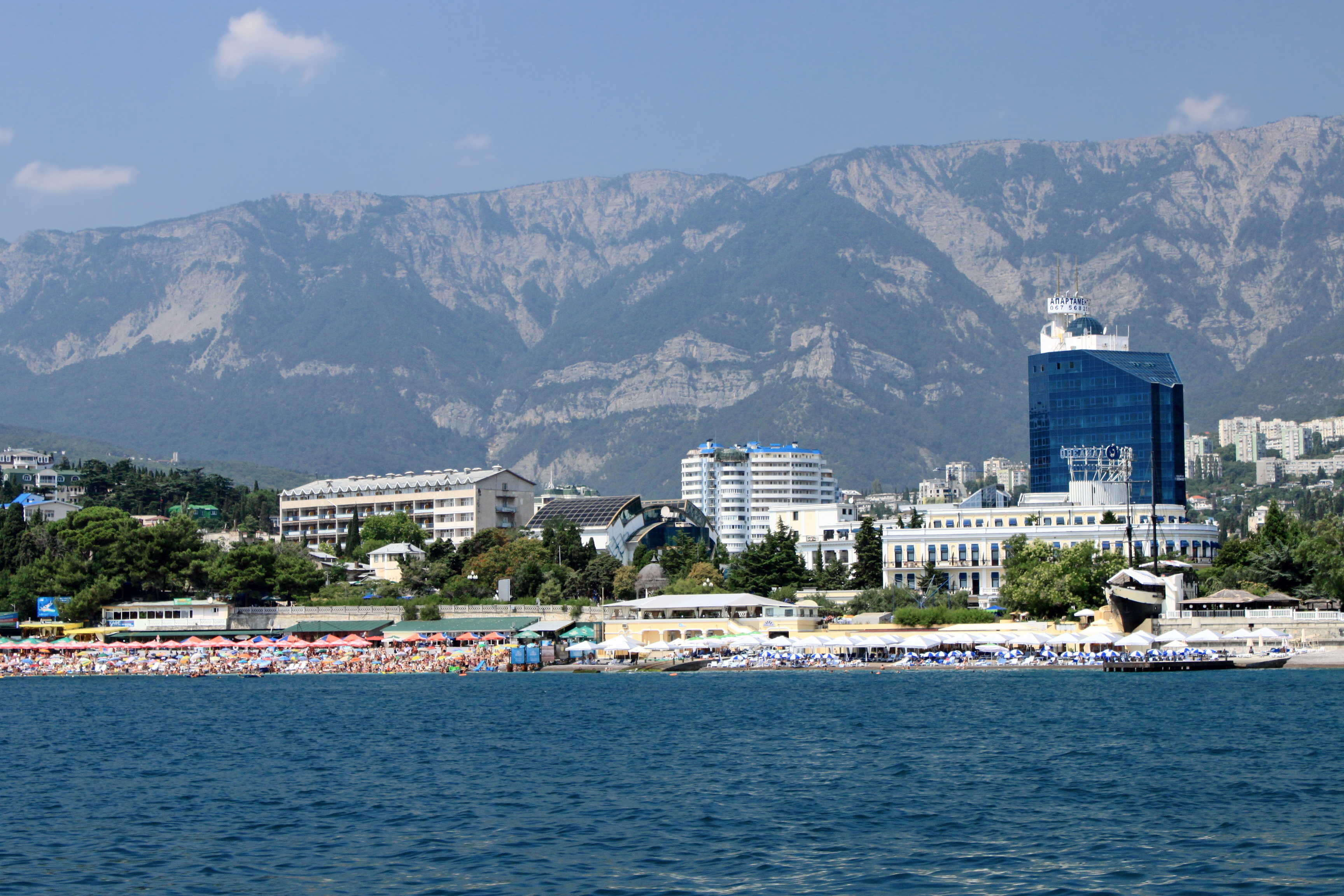 View of the city from the ship. Yalta, Crimea.